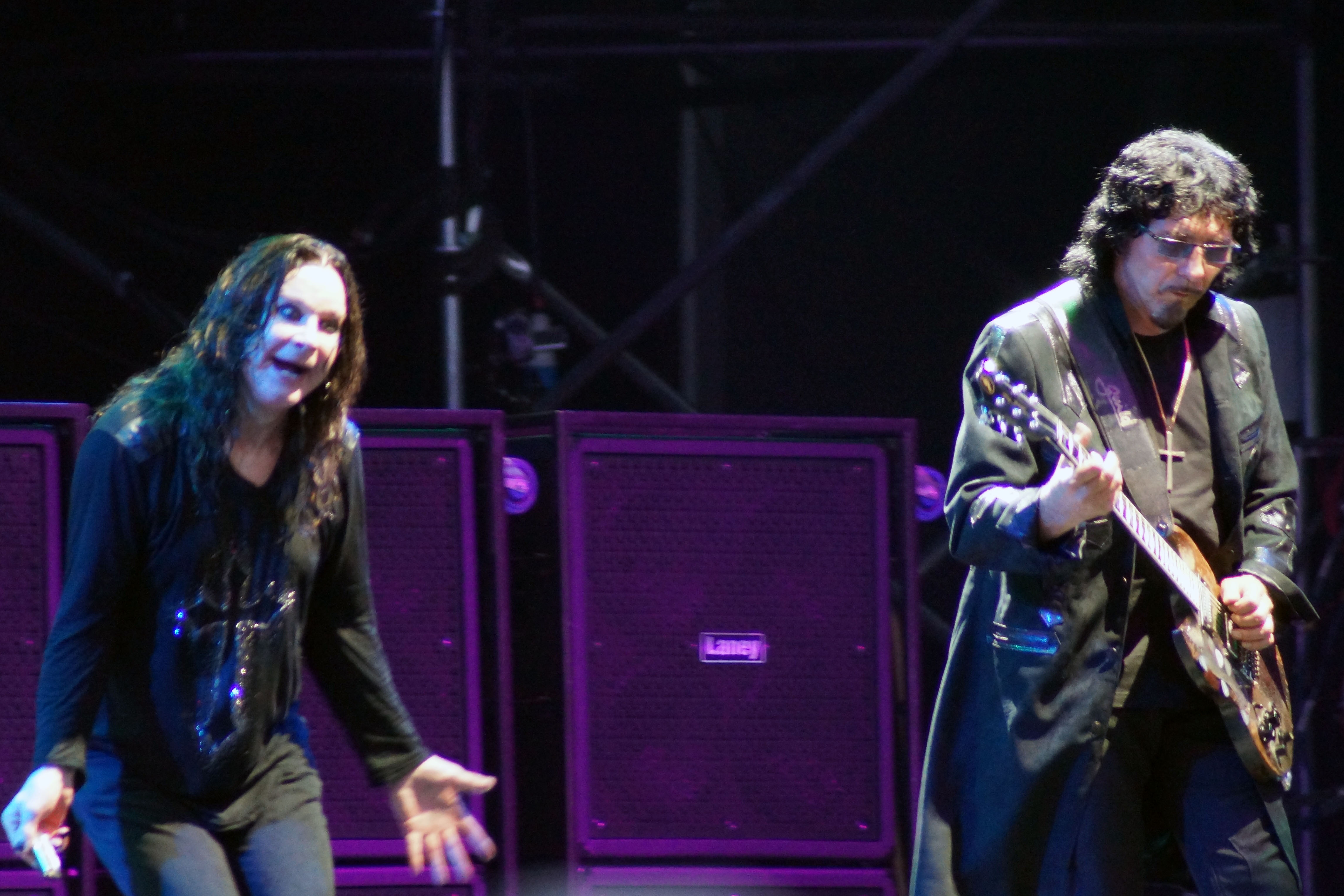 Black Sabbath performing live at Lollapalooza 2012.